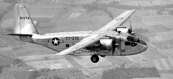 Chase YC-122 "Avitruc" in flight.